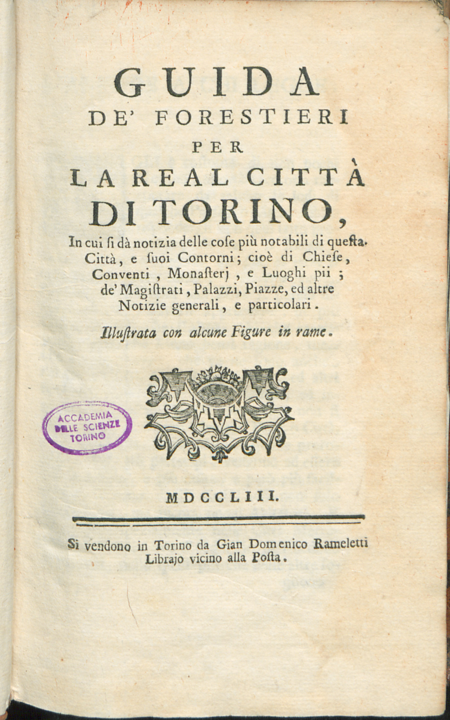 Book frontispiece.